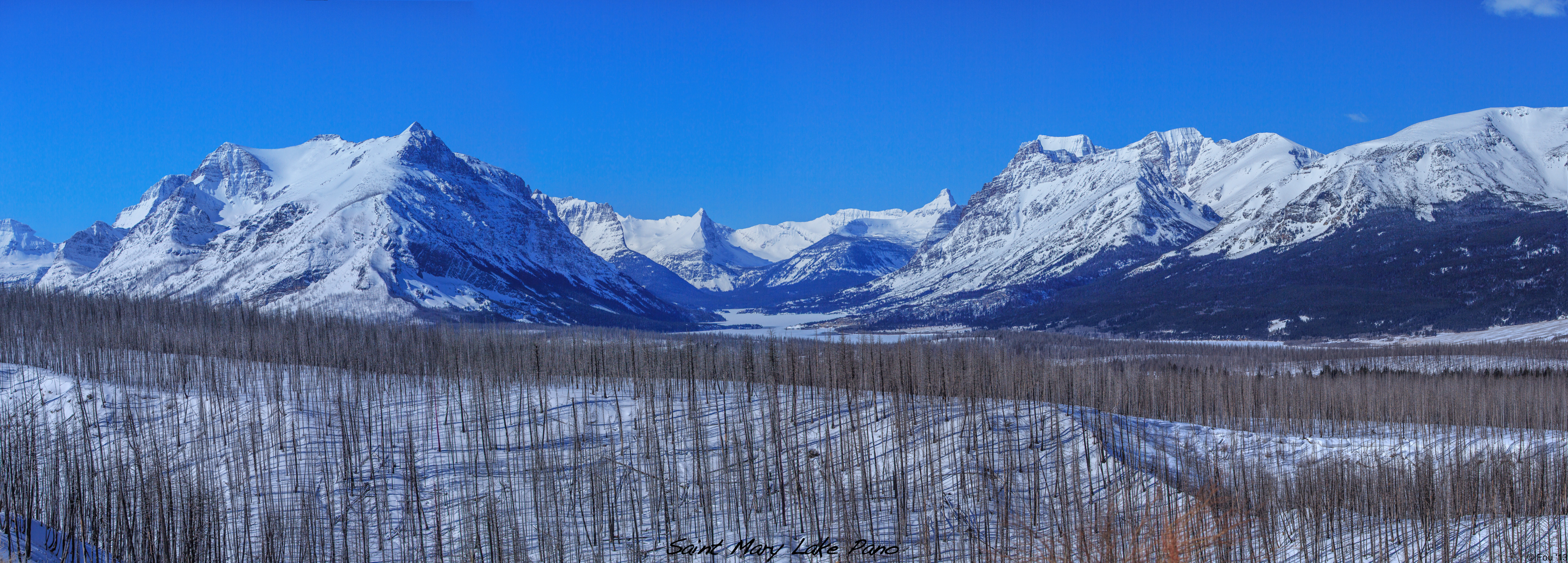 2013-3 US Tour 39-Mon/Col/Ariz/Cal.